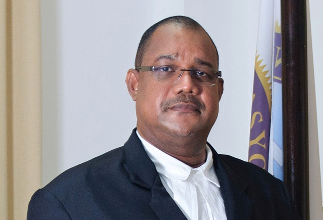 The speaker of the Seychelles National Assembly Dr Patrick Herminie